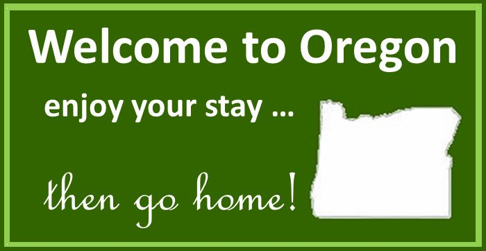 Oregon ungreeting sign similar to those promoted by the James G. Blaine Society that was active in Oregon in the 1960s to 1980s